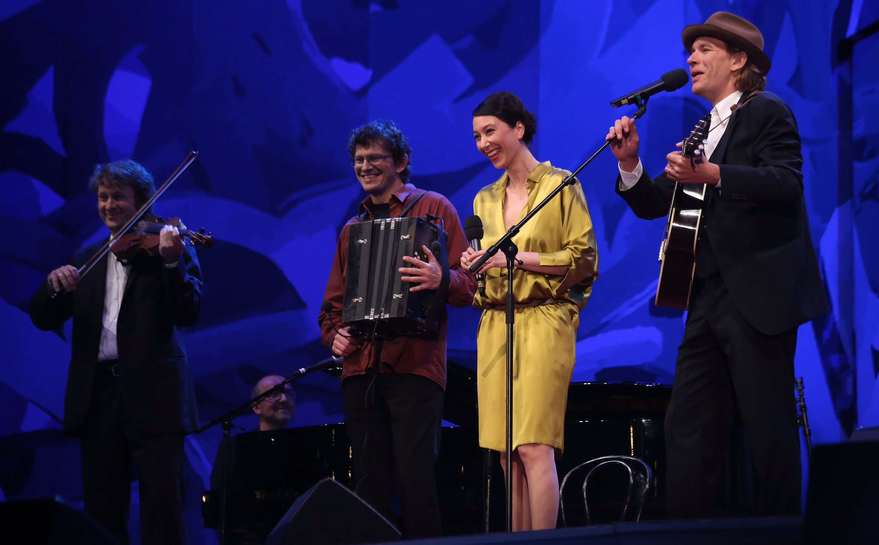 Ursula Strauss, Klemens Lendl (v, Die Strottern), Christian Wegscheider (p, Stubnblues), Walther Soyka (acc) and Ernst Molden (git, voc) - opening evening of the Vienna Festival 2013 at the square in front of the Rathaus in Vienna, Austria